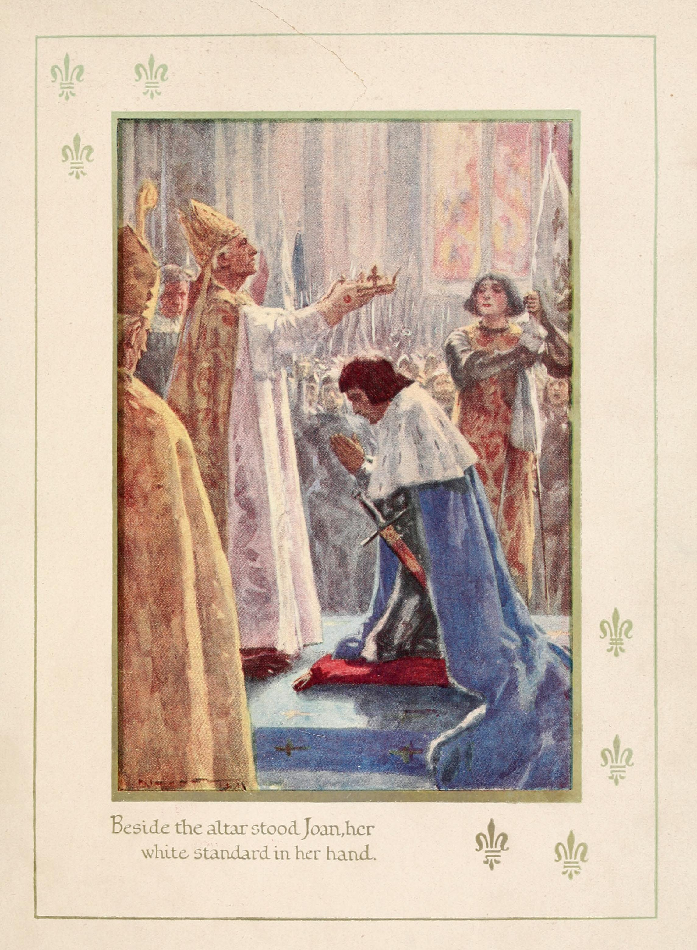 Published [c1912] Topics France -- History Publisher New York : Hodder & Stoughton, George H. Doran company Pages 622 Possible copyright status NOT_IN_COPYRIGHT Language English Call number 564148 Digitizing sponsor MSN Book contributor New York Public Library Collection newyorkpubliclibrary; americana Full catalog record MARCXML [Open Library icon]This book has an editable web page on Open Library.